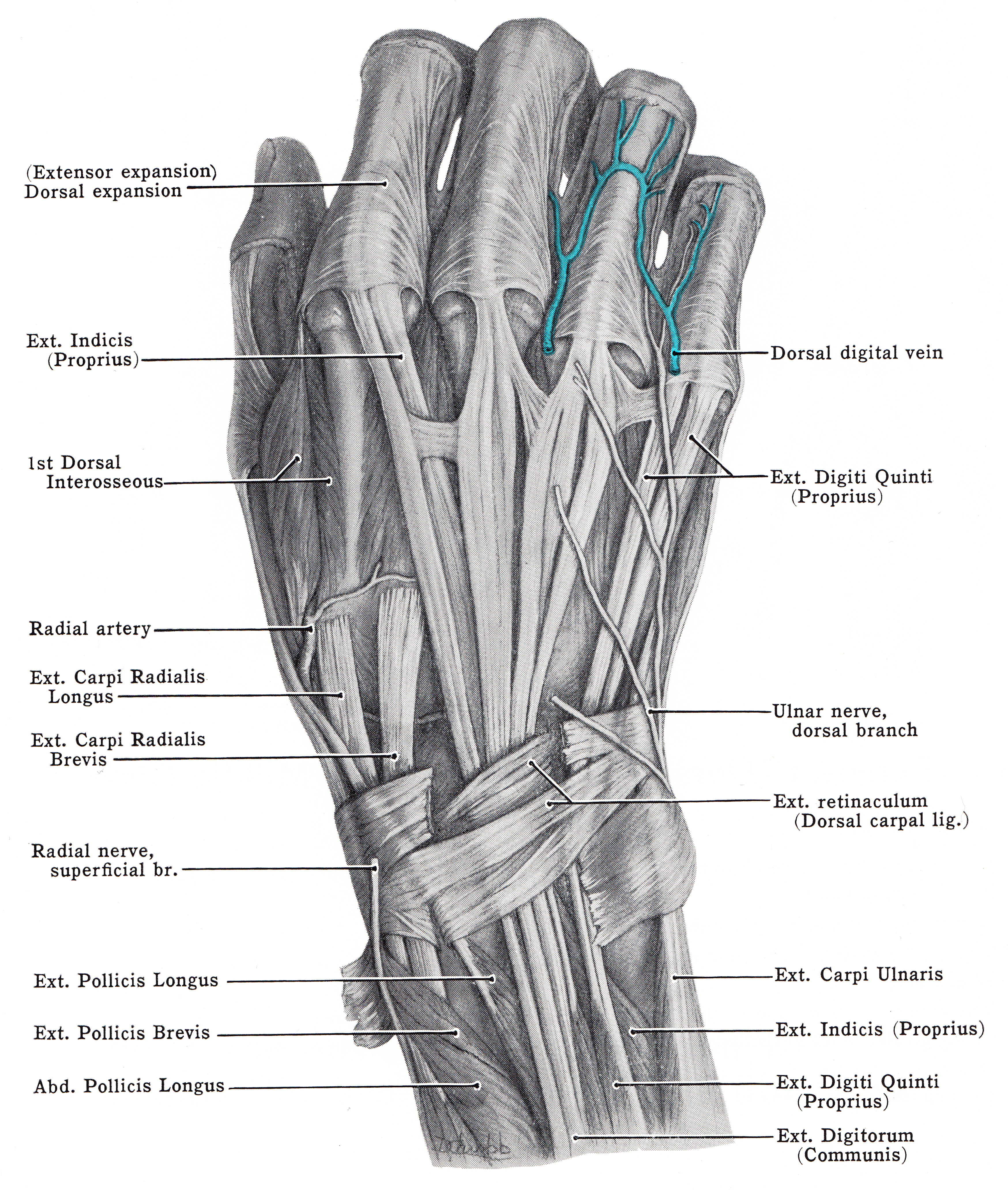 An anatomical illustration from An atlas of anatomy/by regions 1962